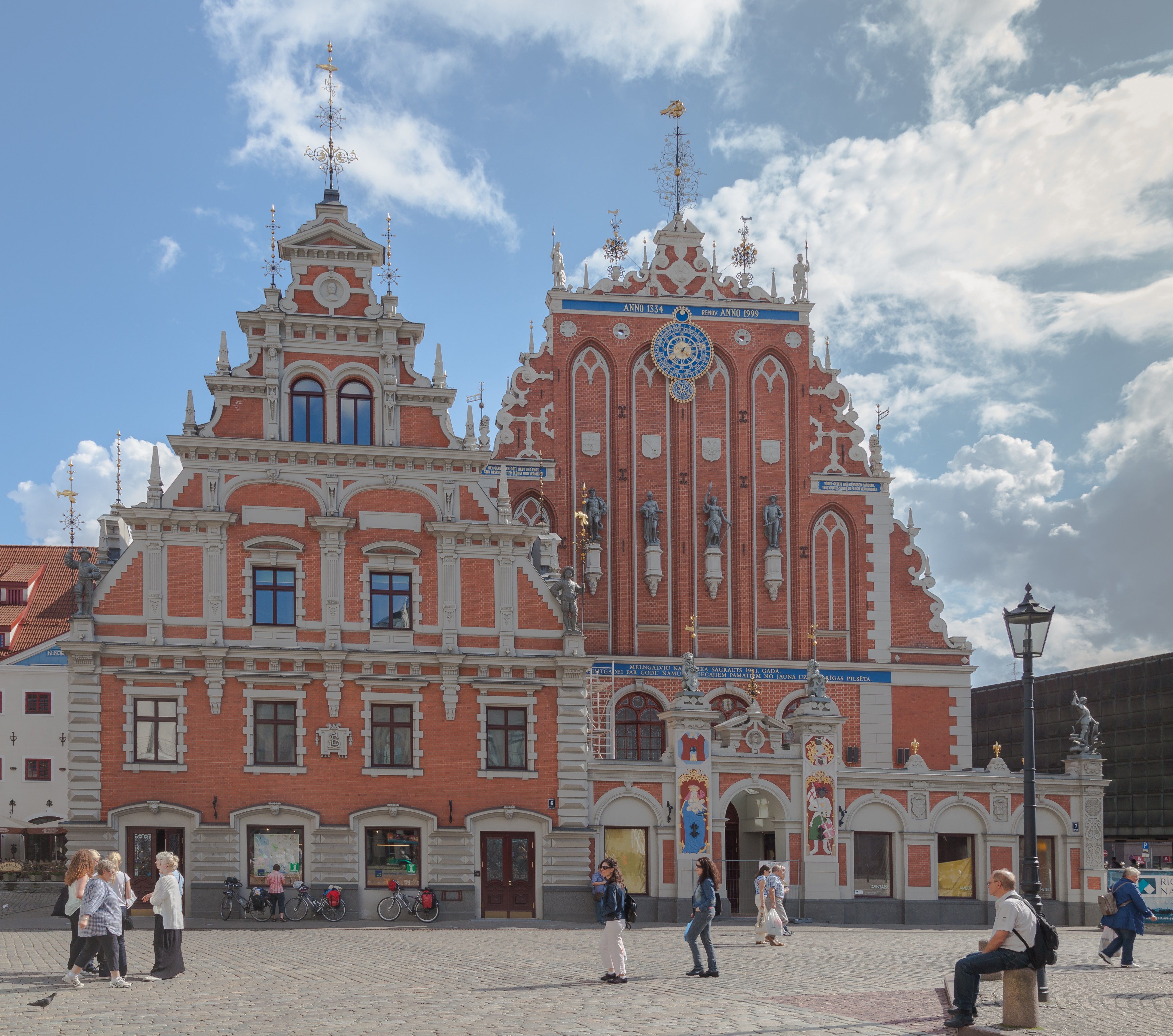 House of Blackheads, Riga, Latvia